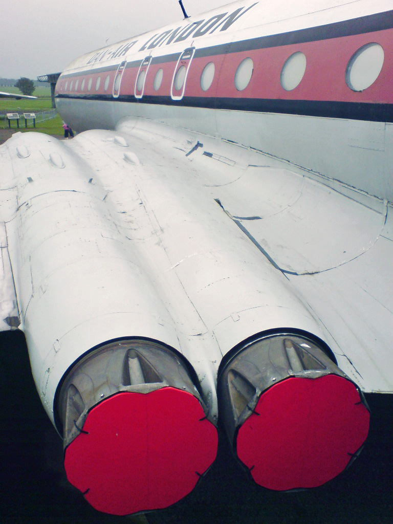 de Havilland Comet 4c in Dan Air livery - fuselage showing engines within wing, and elliptical windows as changed from Comet 1's rectangular design. This example was built for the RAF and later operated by Dan Air. It was the last civil Comet to fly, when delivered to East Fortune airfield (Scottish Museum of Flight) in 1981. Pictured there in October 2006. Uploaded by the photographer under CC-BY-SA-2.5 license.